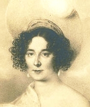 Therese Malfatti (1792-1851), Detail of a portrait (pastel)